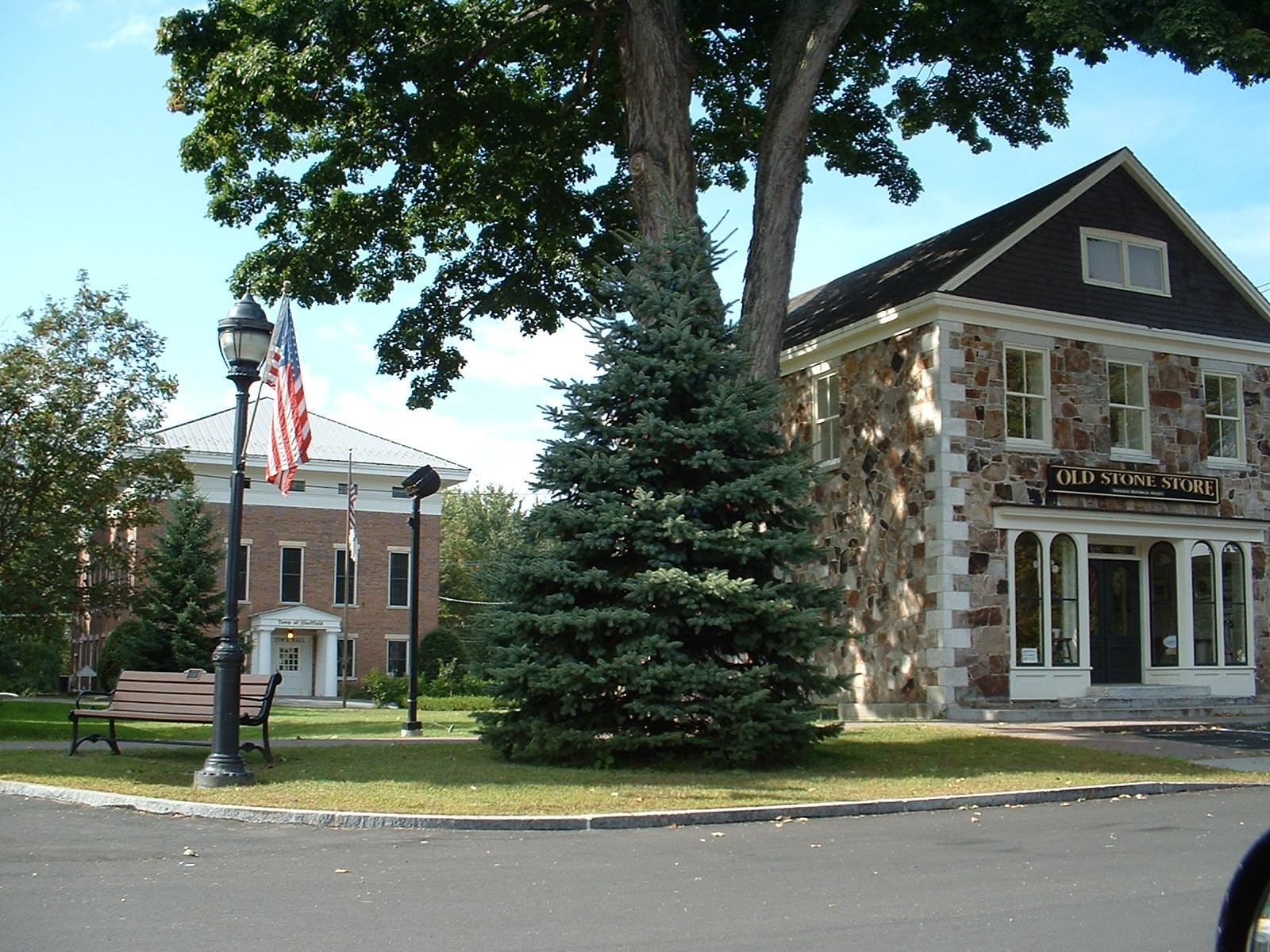 The Old Stone Store, with Sheffield Town Hall behind it. US Route 7 and Railroad St, Sheffield, MA